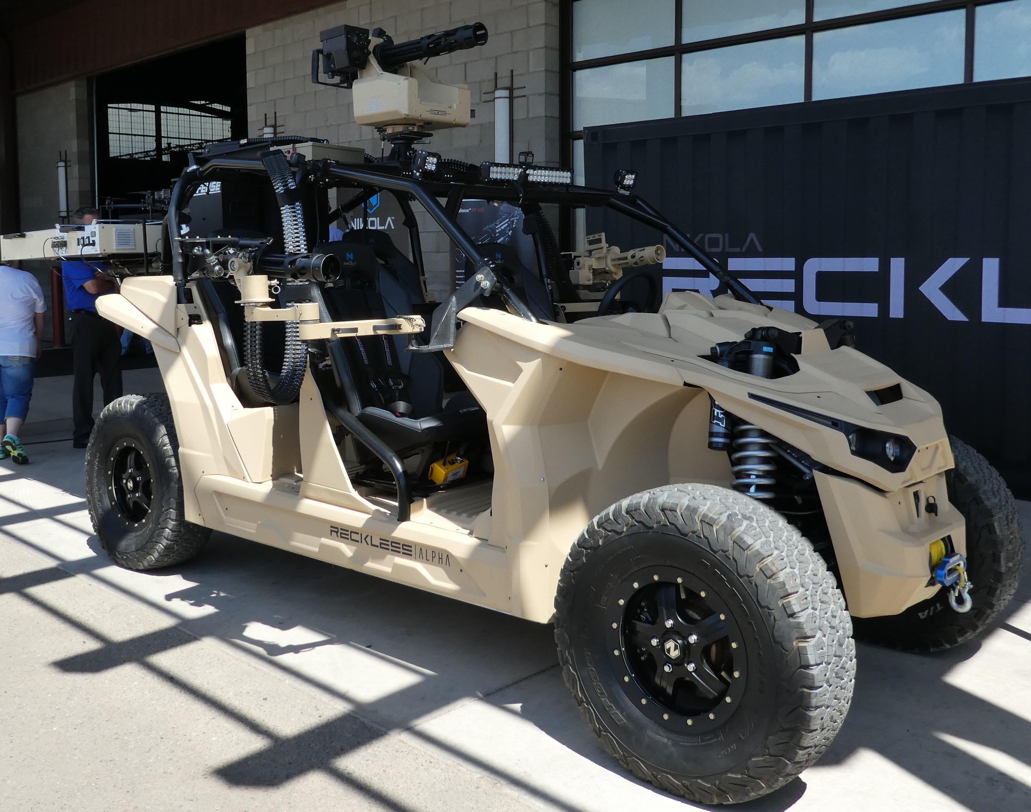 Nikola Motor Company, Reckless military off-road vehicle